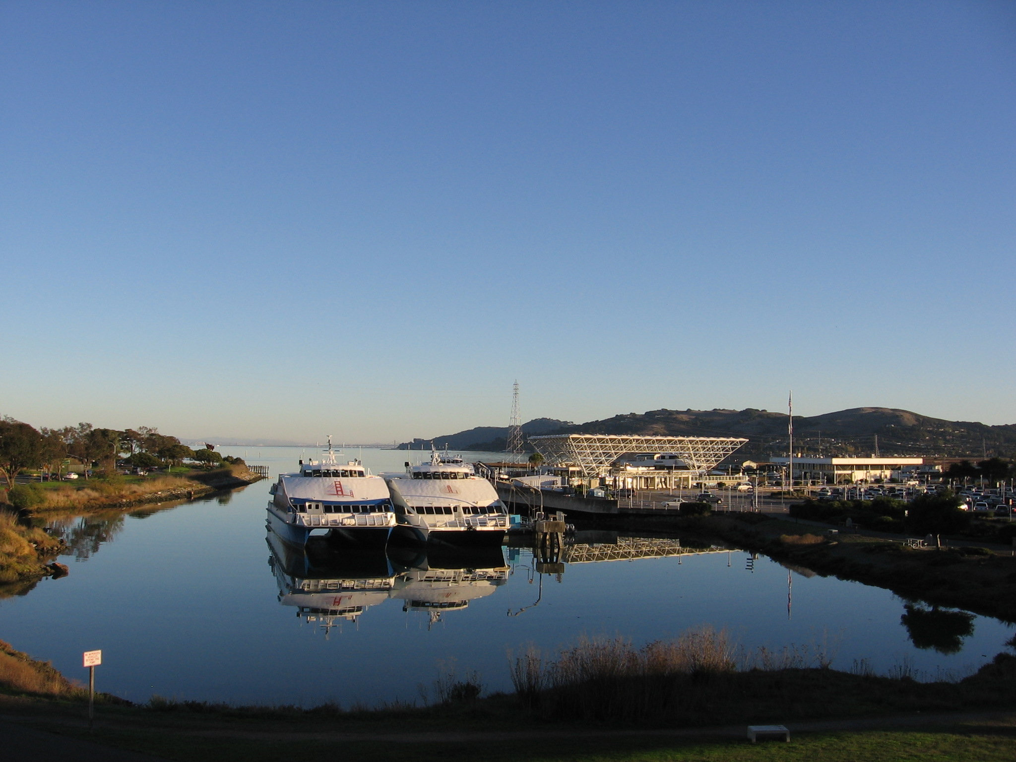 Ferries docked at the Larkspur Landing in Larkspur, California, USA.